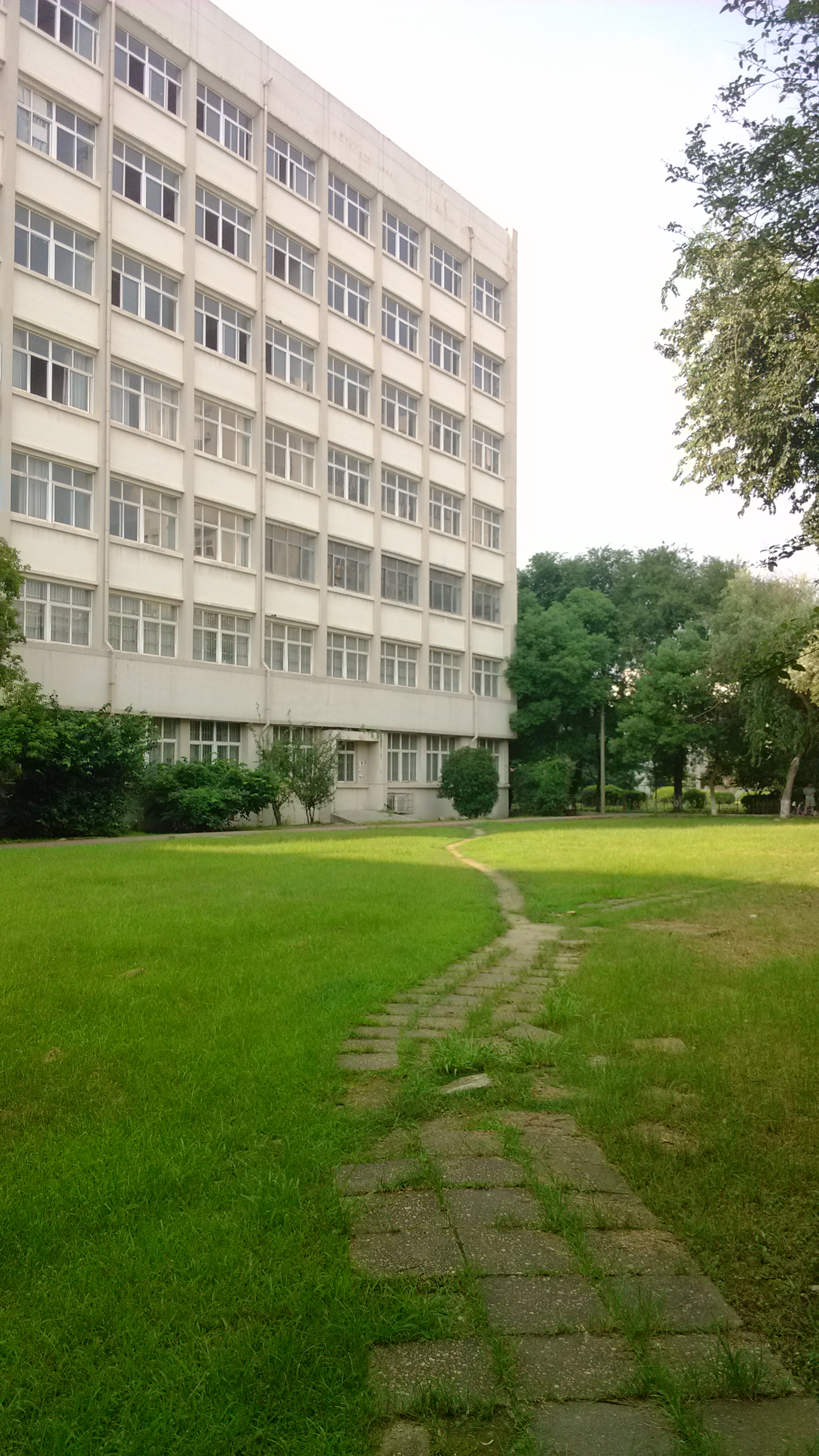 Building Huagong，Nanchang university institute of science and technology